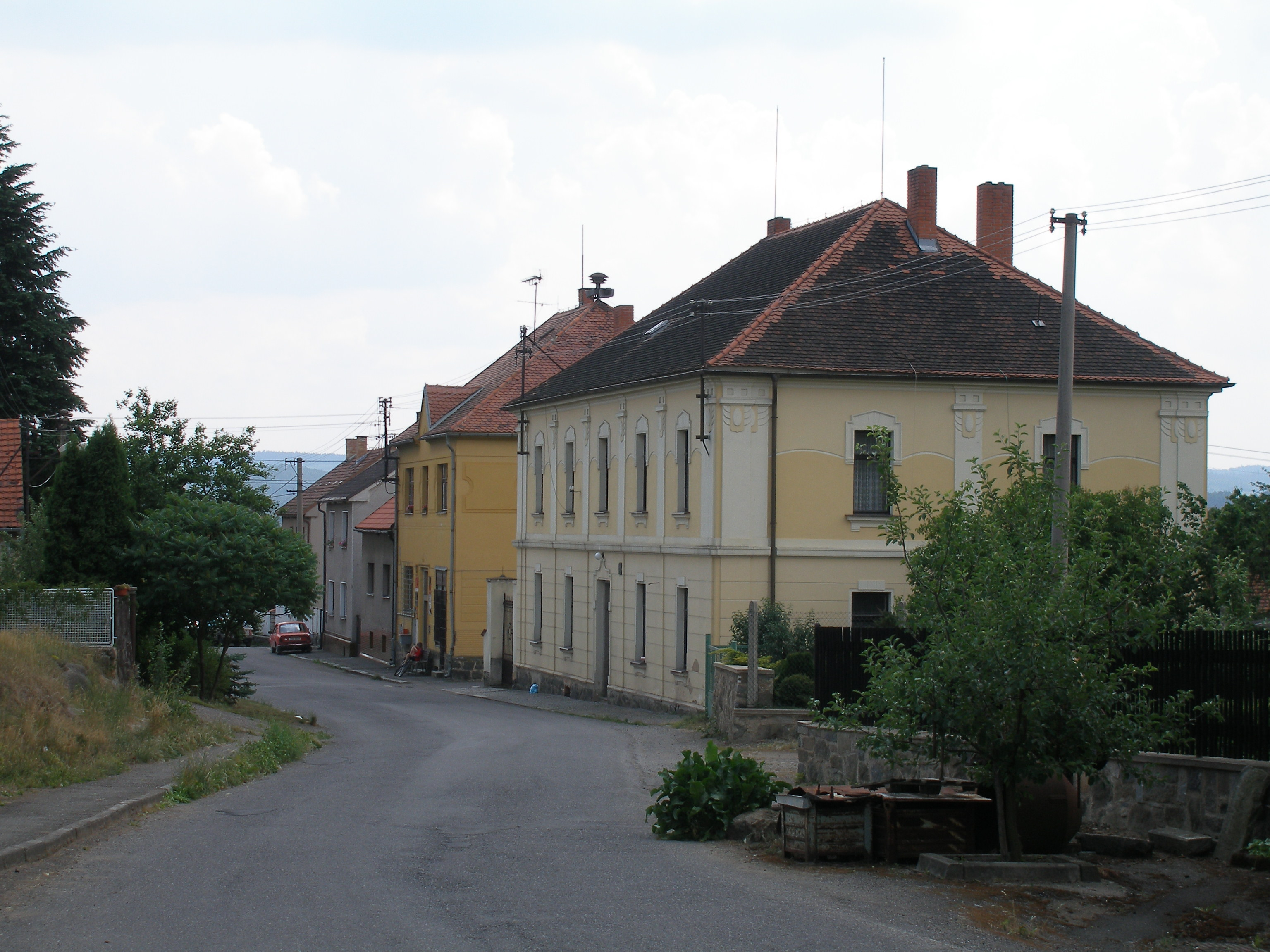 Hřiměždice - houses in the village centre